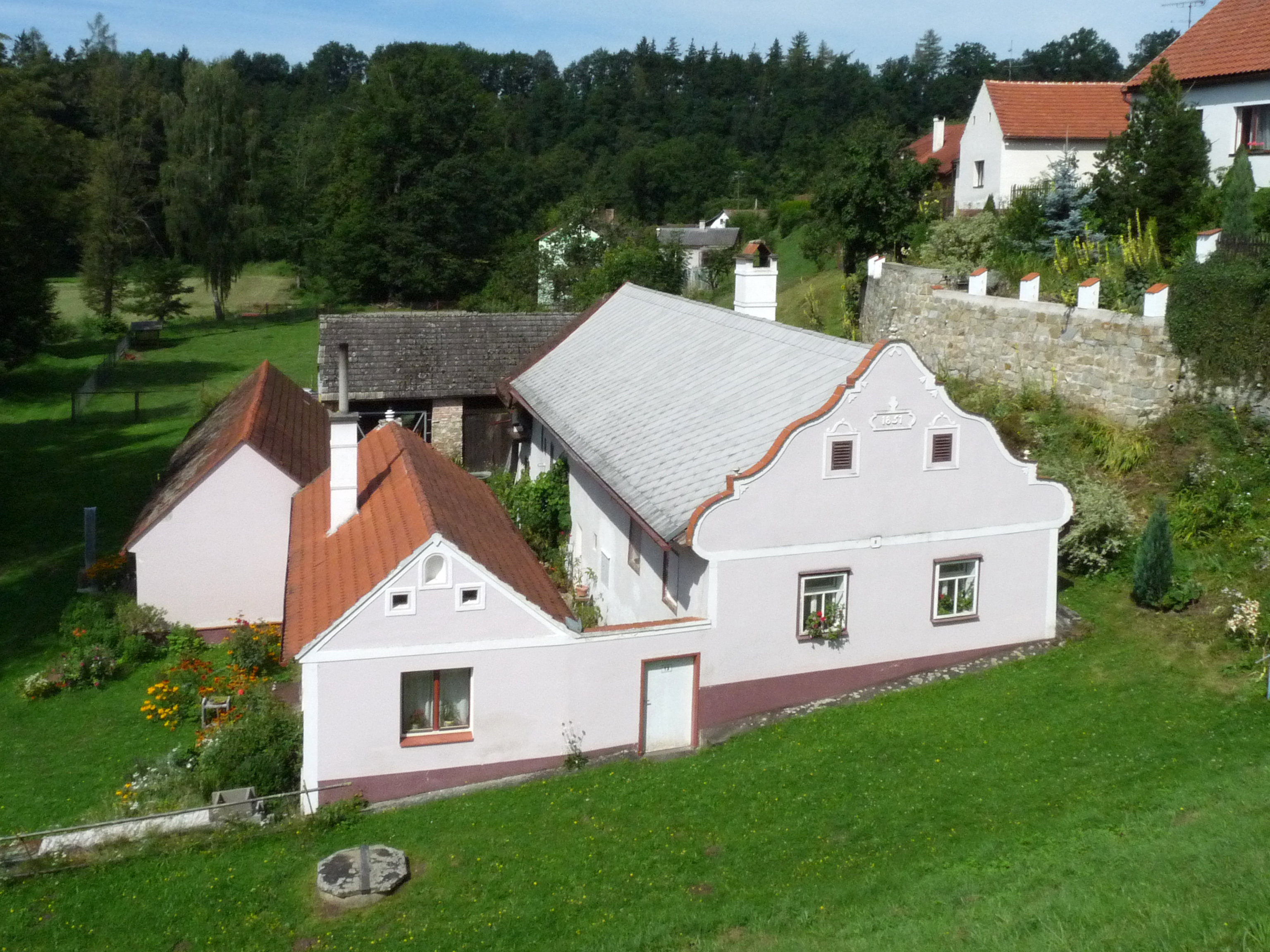 House No 13 in Doudleby, České Budějovice district, Czech Republic, as seen from the bridge